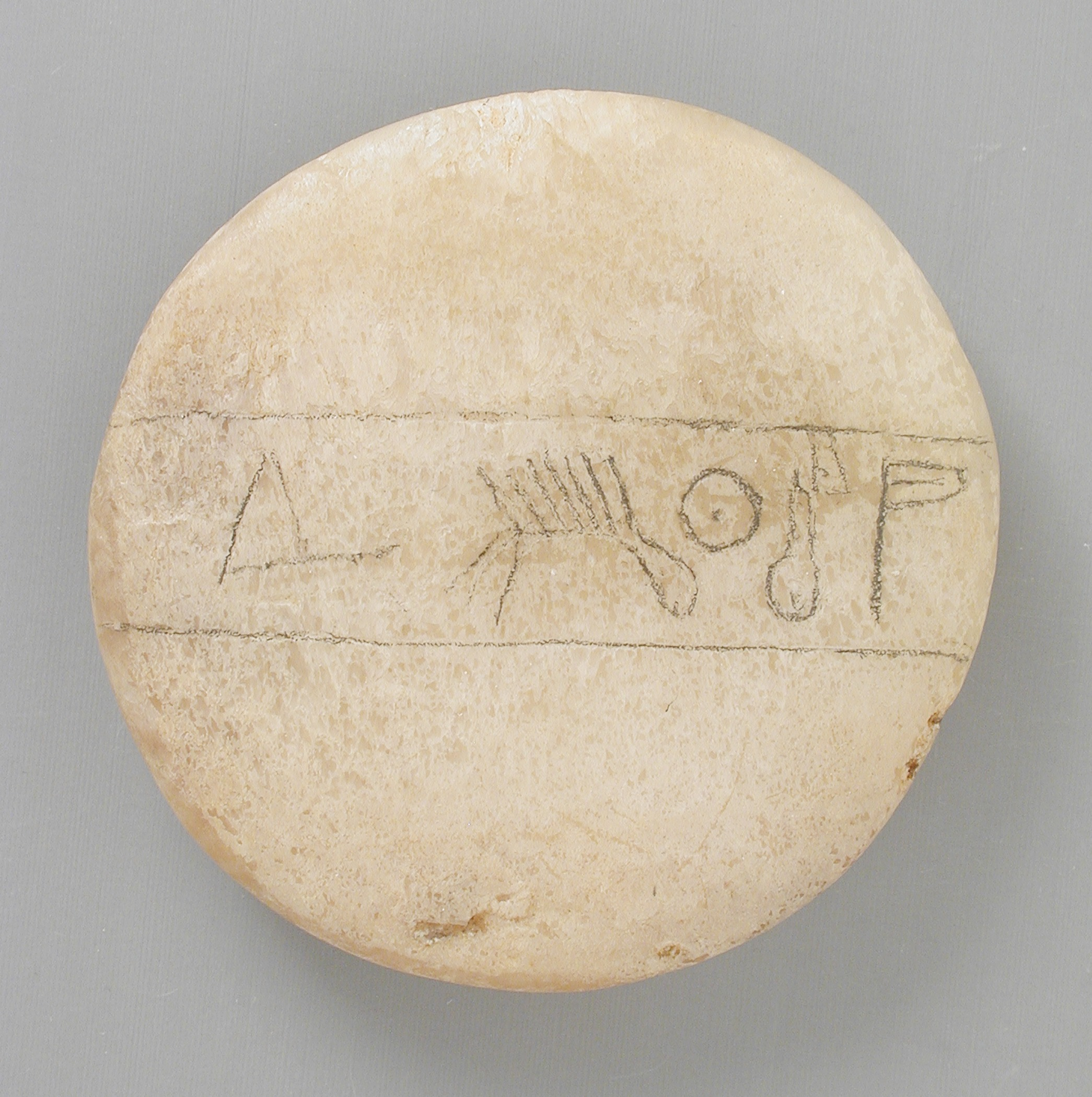 Egypt, Middle Kingdom, 13th Dynasty, reign of King Hor I (circa 1780 - 1750 BCE) Furnishings; Serviceware Calcite Diameter: 1 7/8 in. (4.8 cm) Gift of Carl W. Thomas (M.80.203.226) Egyptian Art